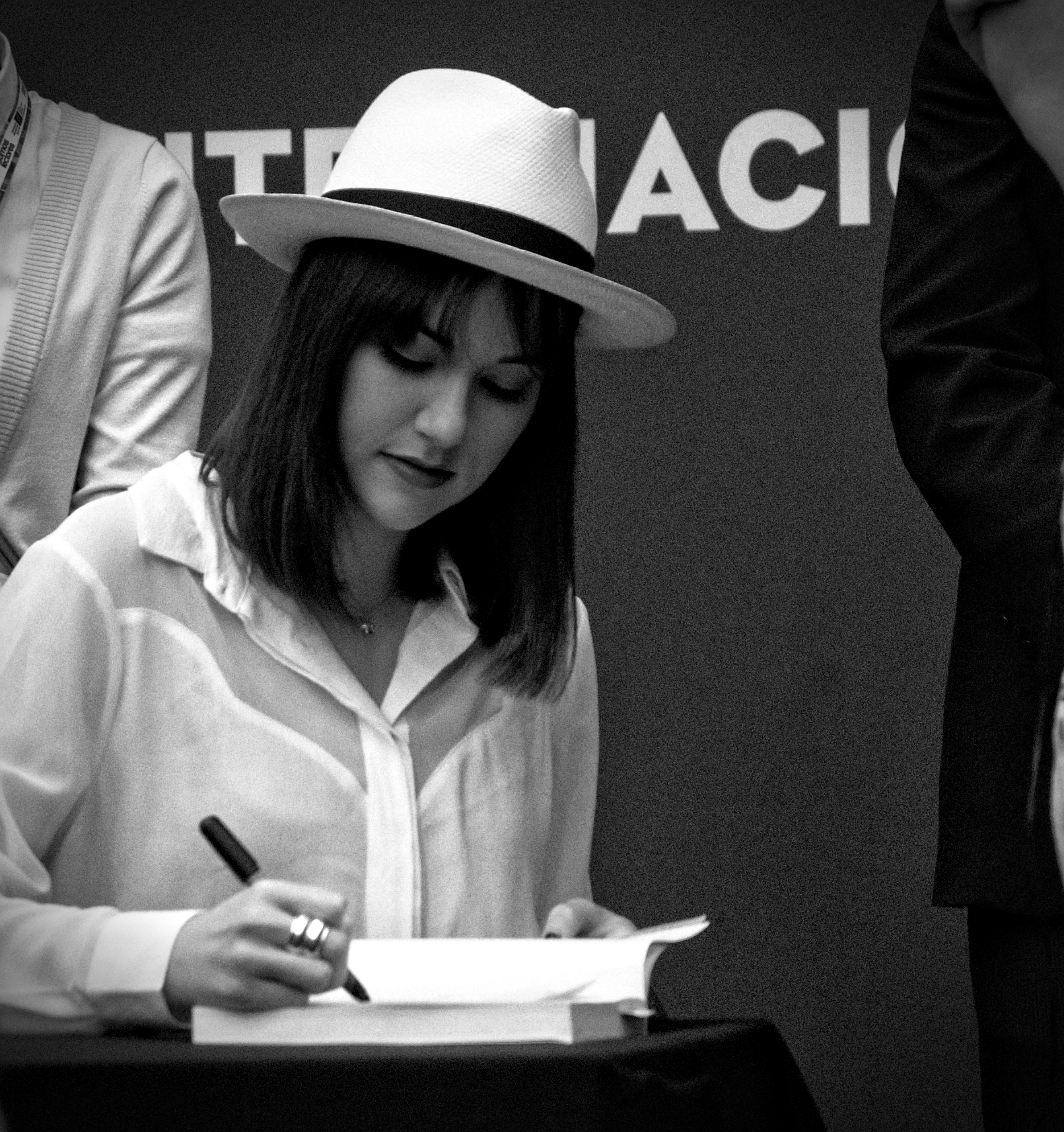 GST_GST_5811 Sasha Grey attends the annual Guadalajara International Book Fair, promoting her novel The Jouliette Society